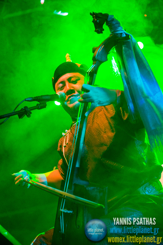 Ajinai on Thursday Night by Yannis Psathas